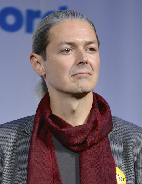 Nominated for the August Prize 2014.